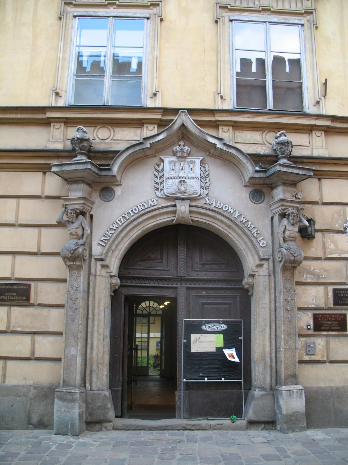 Portal of no. 1 Kanonicza Street, Kraków